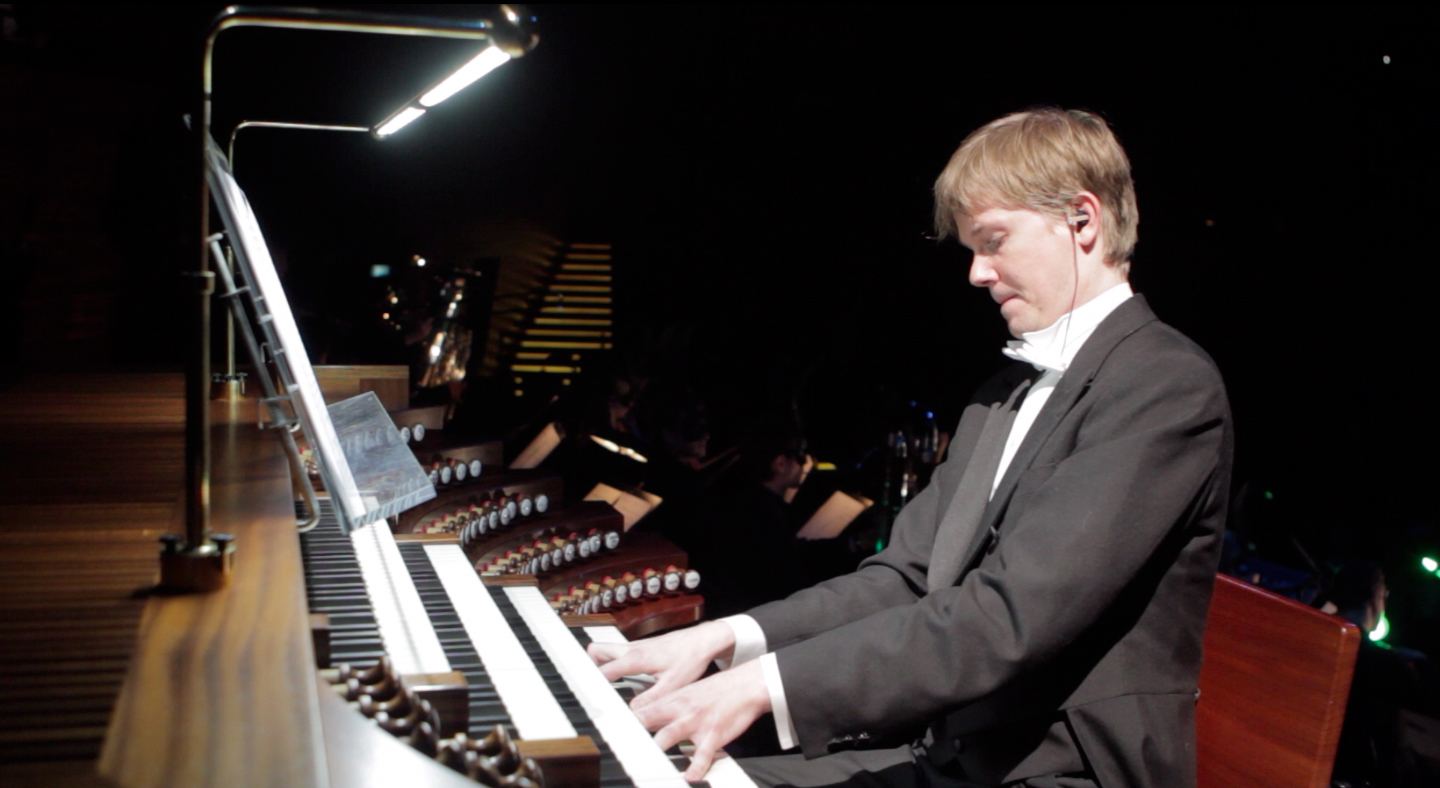 Composer and organist Frederik Magle at the pipe organ console. Still photo from a video shot by Baltazar Hertel in the Copenhagen Concert Hall, September 10, 2011.